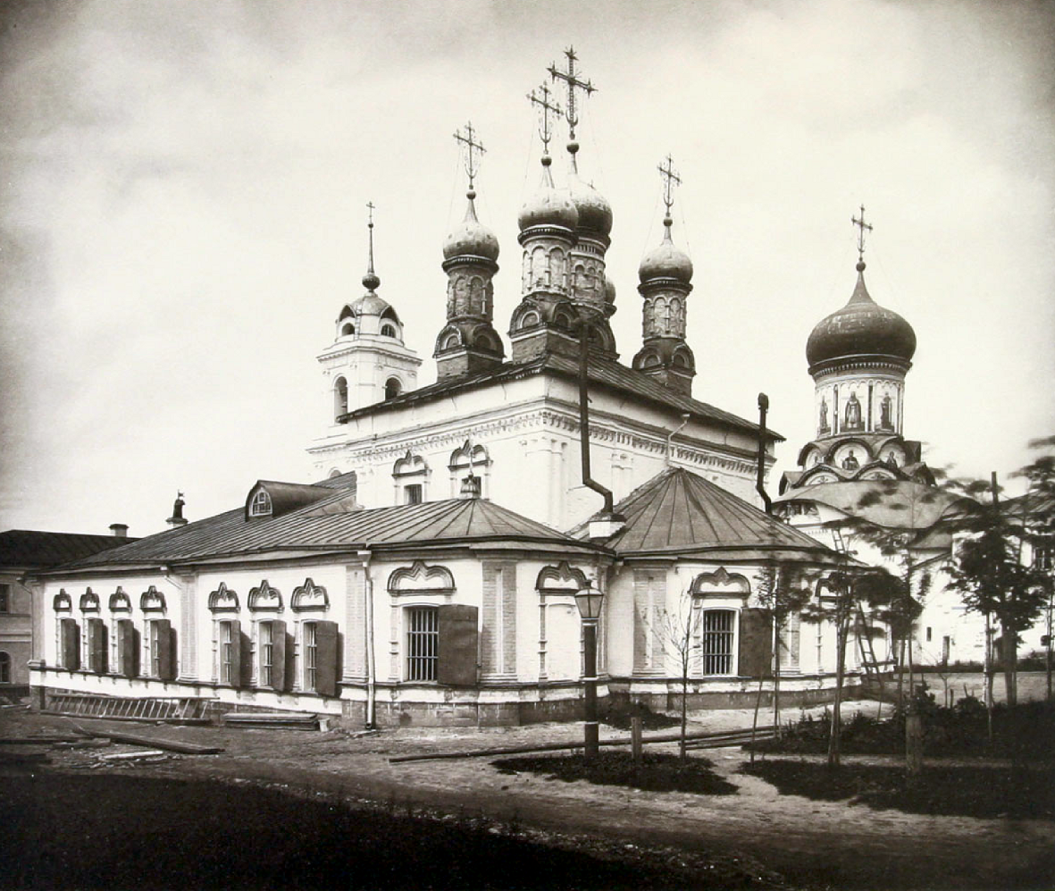 Nativity Convent, Moscow (inside view).